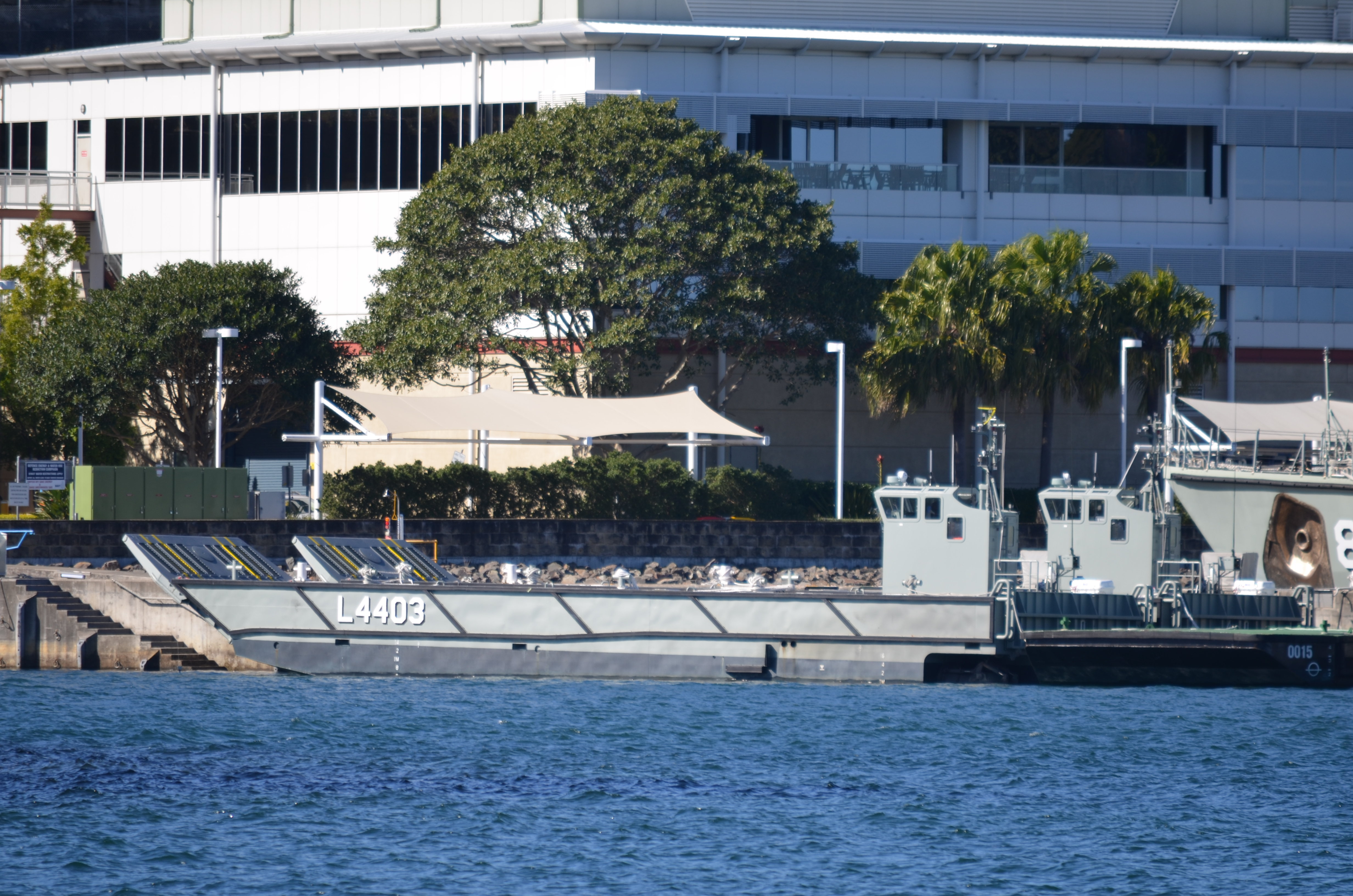 The LCM-1E lading craft L4003, at HMAS Waterhen'. Another, unidentifed LCM-1E is moored inboard